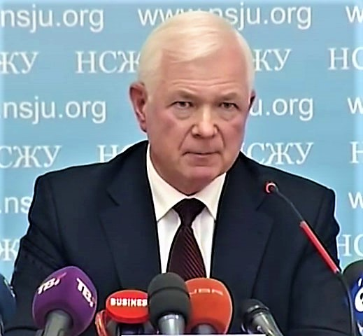 Mykola Malomuzh, Ukrainian general, former Head of Foreign Intelligence Service of Ukraine